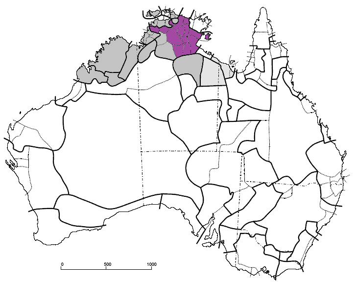 The Arnhem languages (purple), and other non-Pama–Nyungan languages (grey), according to Green.